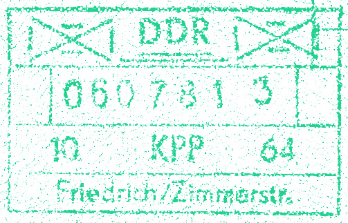 1964 DDR (East German) passport stamp applied at the Friedrichstrasse/Zimmerstrasse checkpoint in East Berlin opposite "Checkpoint Charlie"